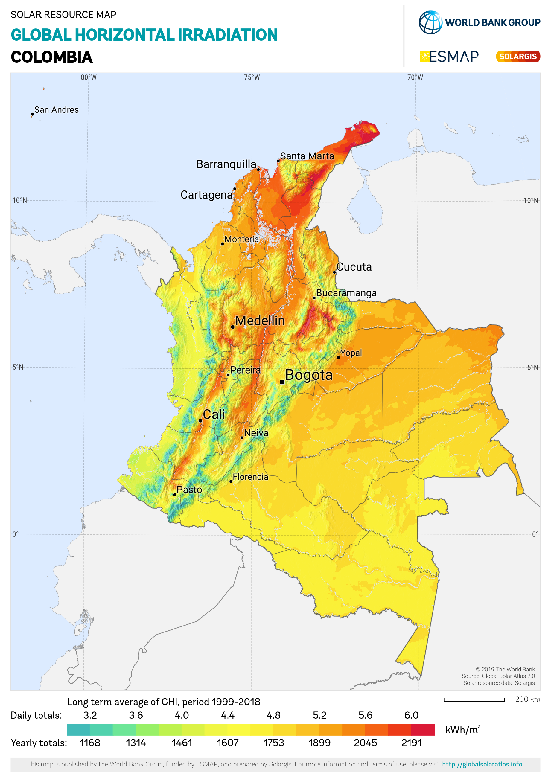 Global Horizontal Irradiation of Colombia